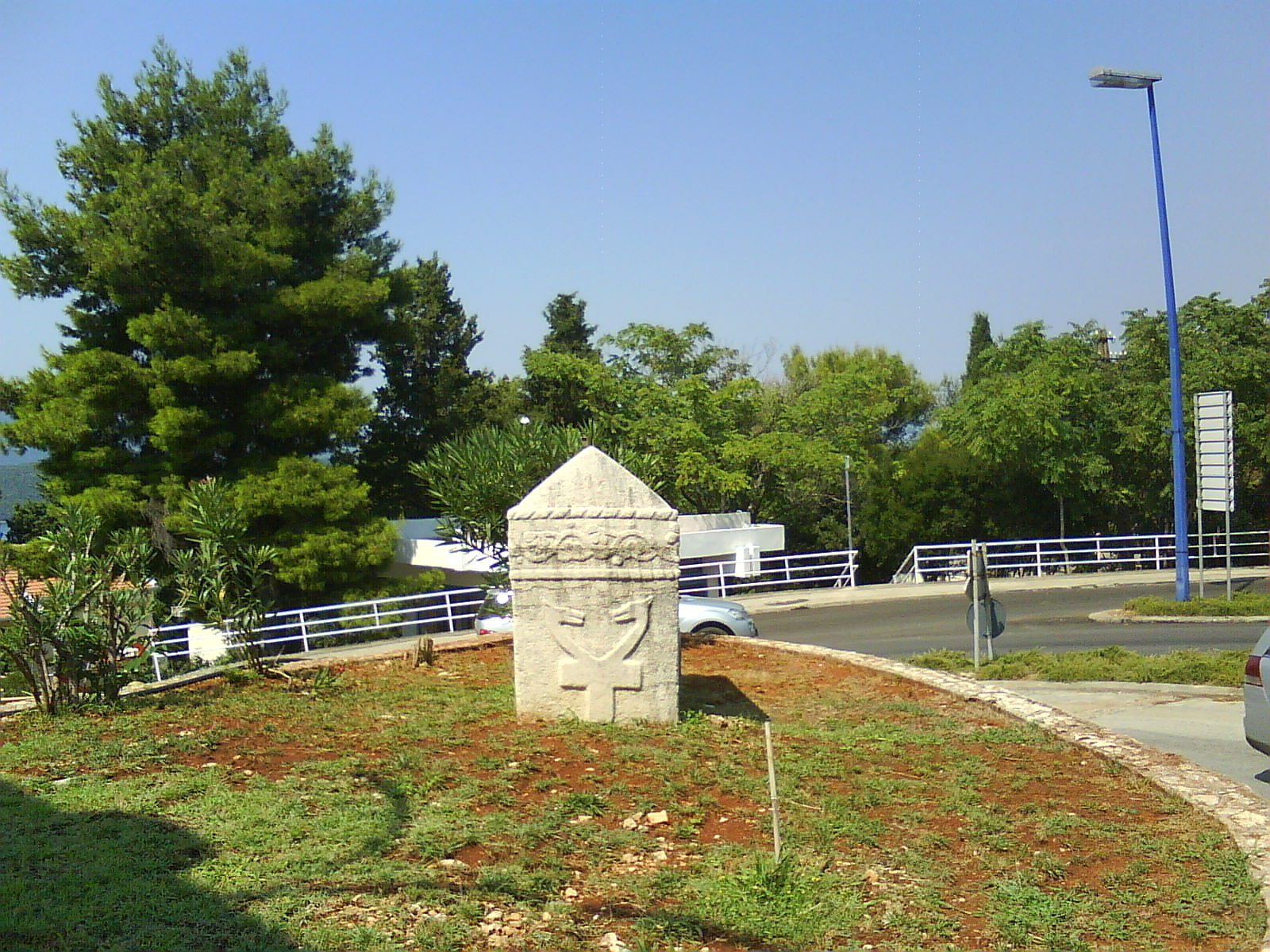 City of Neum